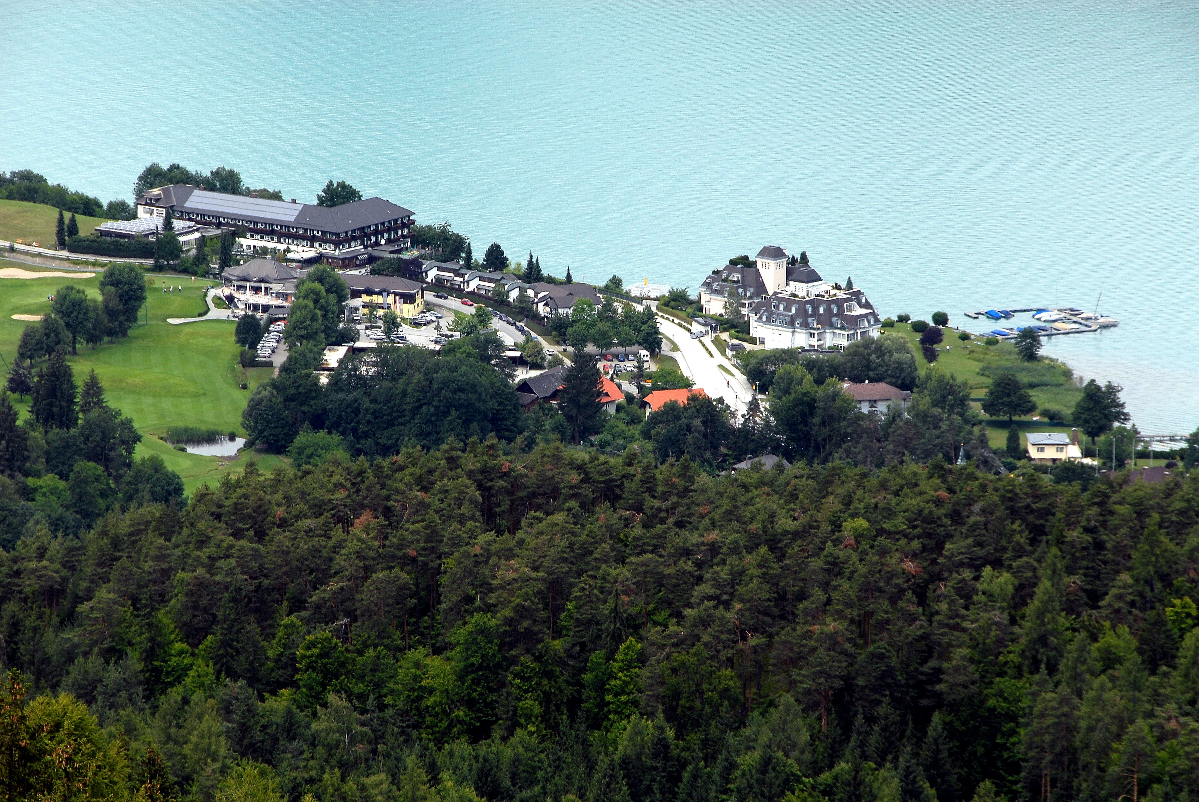 View of Unterdellach on Wörther See, municipality Maria Wörth, district Klagenfurt Land, Carinthia, Austria, EU